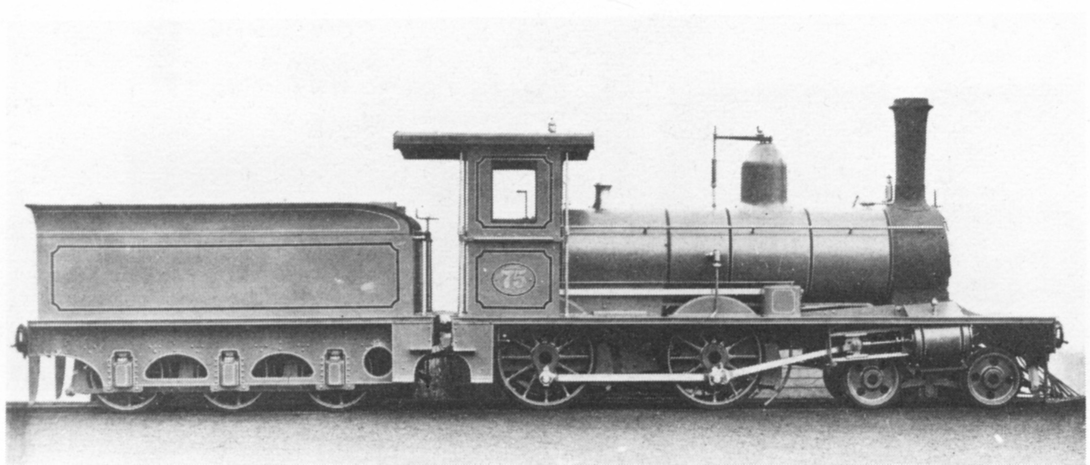 Cape Government Railways 1st Class 4-4-0 (1878-1880 group)